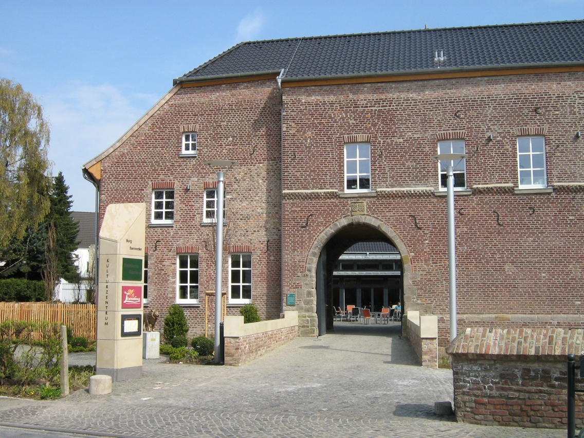 Das Kulturzentrum in Baesweiler This is a photograph of an architectural monument.